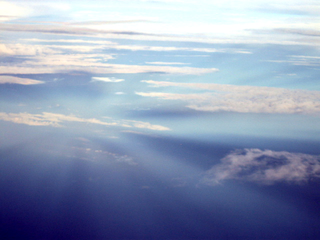 Anticrepuscular rays over the Pacific, viewed from an aircraft.